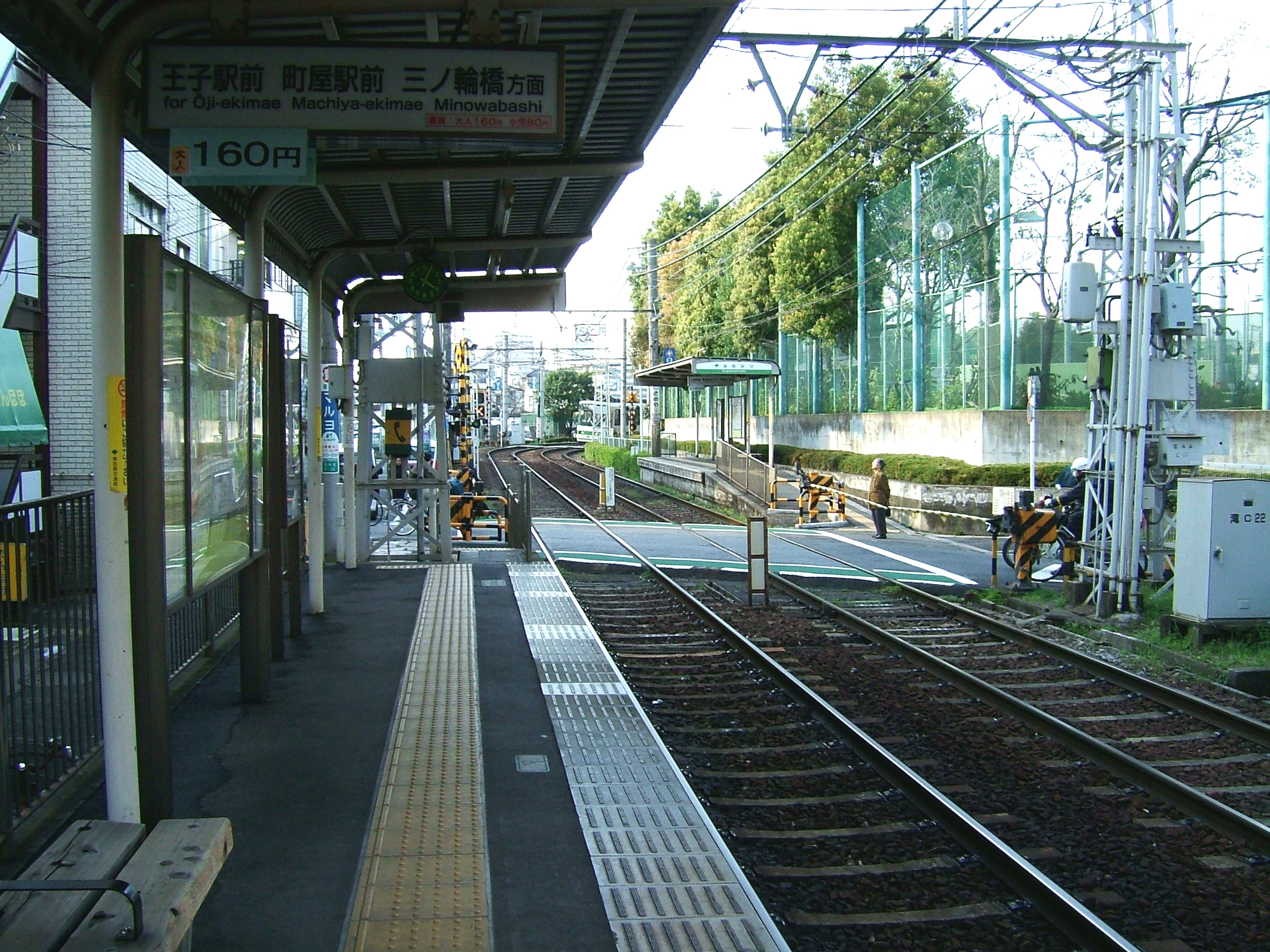 The platforms at Sugamoshinden Station on the Toden Arakawa Line in Toshima city, Tokyo, Japan